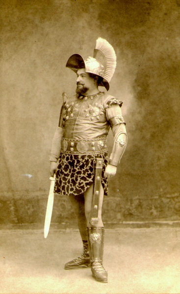 Hélion, Messaline